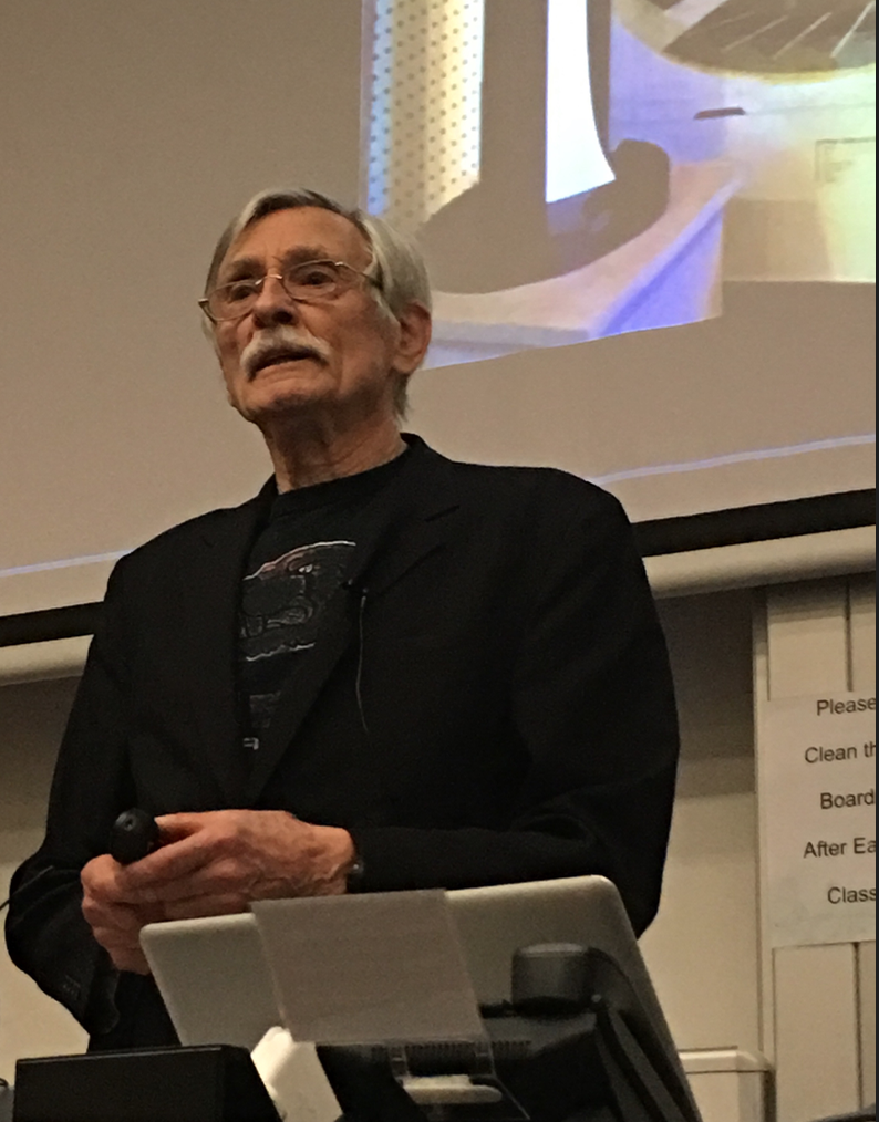 As part of the Simpson Lecture Series, College of Arts, University of Edinburgh, Michael Webb, Experimental Architecture, Arthur, Professor, Founding Member of Archigram, presents his life works, Two Journeys, to faculty and students.